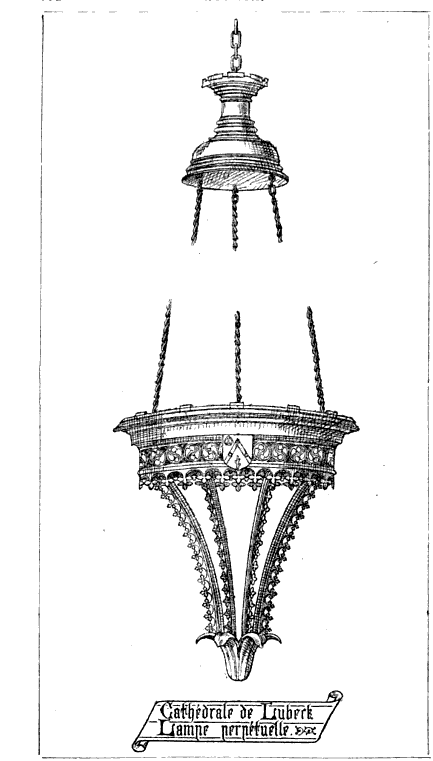 Drawing of bronze lamp made in Bruges and given by Albert Bisschop in 1461, from Le Magasin litteraire 6 (1889), p. 182